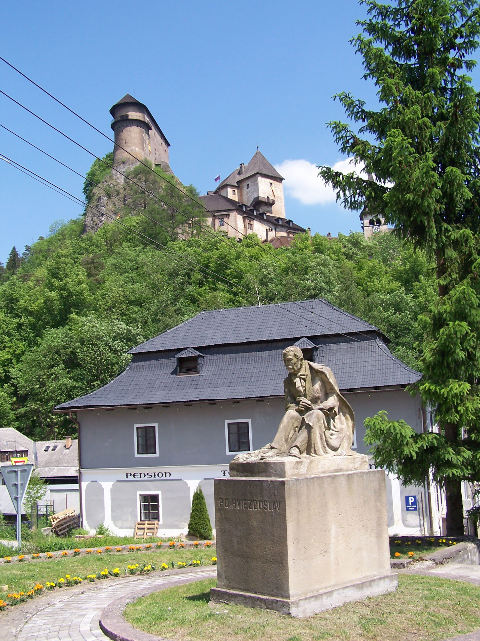 Orava Castle and the statue of poet Pavol Országh Hviezdoslav, Slovakia